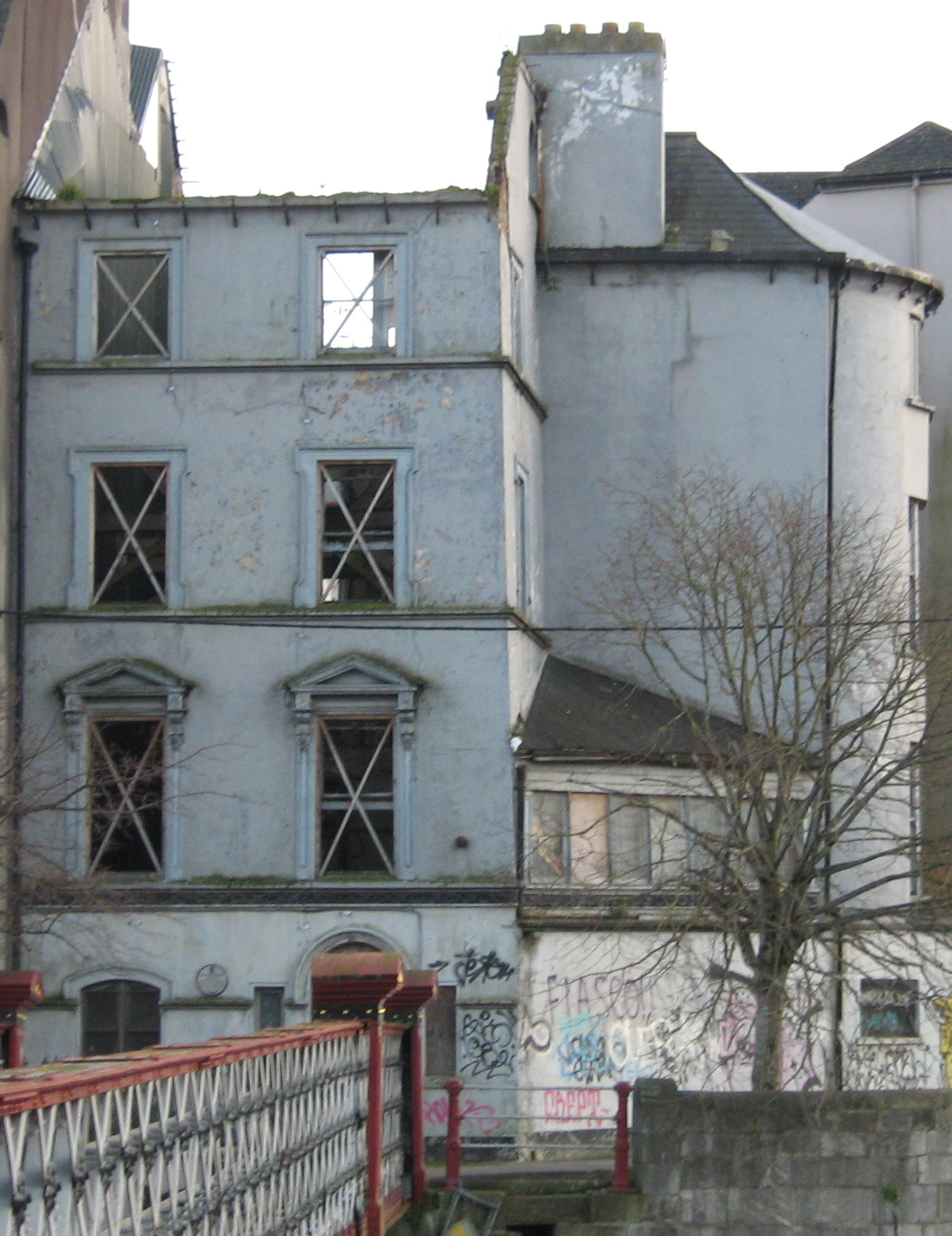 The house in Cork, Ireland, in which George Boole lived between 1849 and 1855